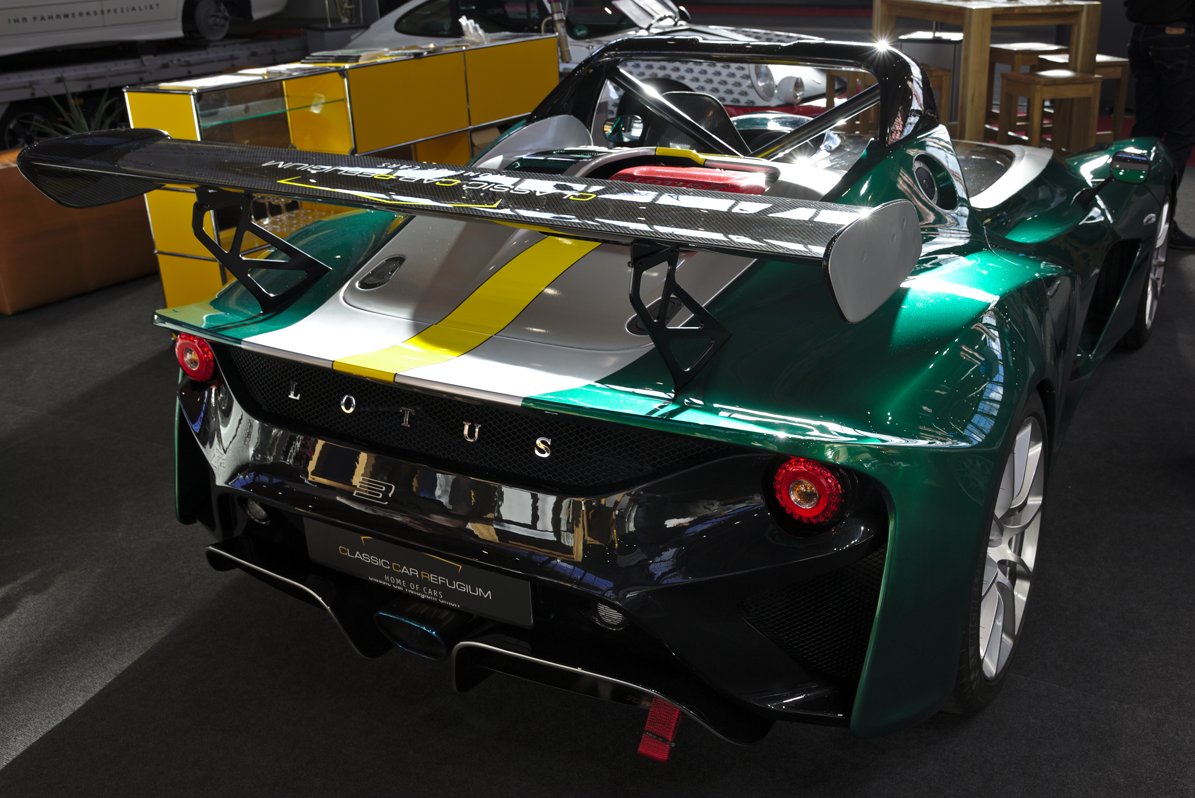 Lotus 3-Eleven at Retro Classics 2019